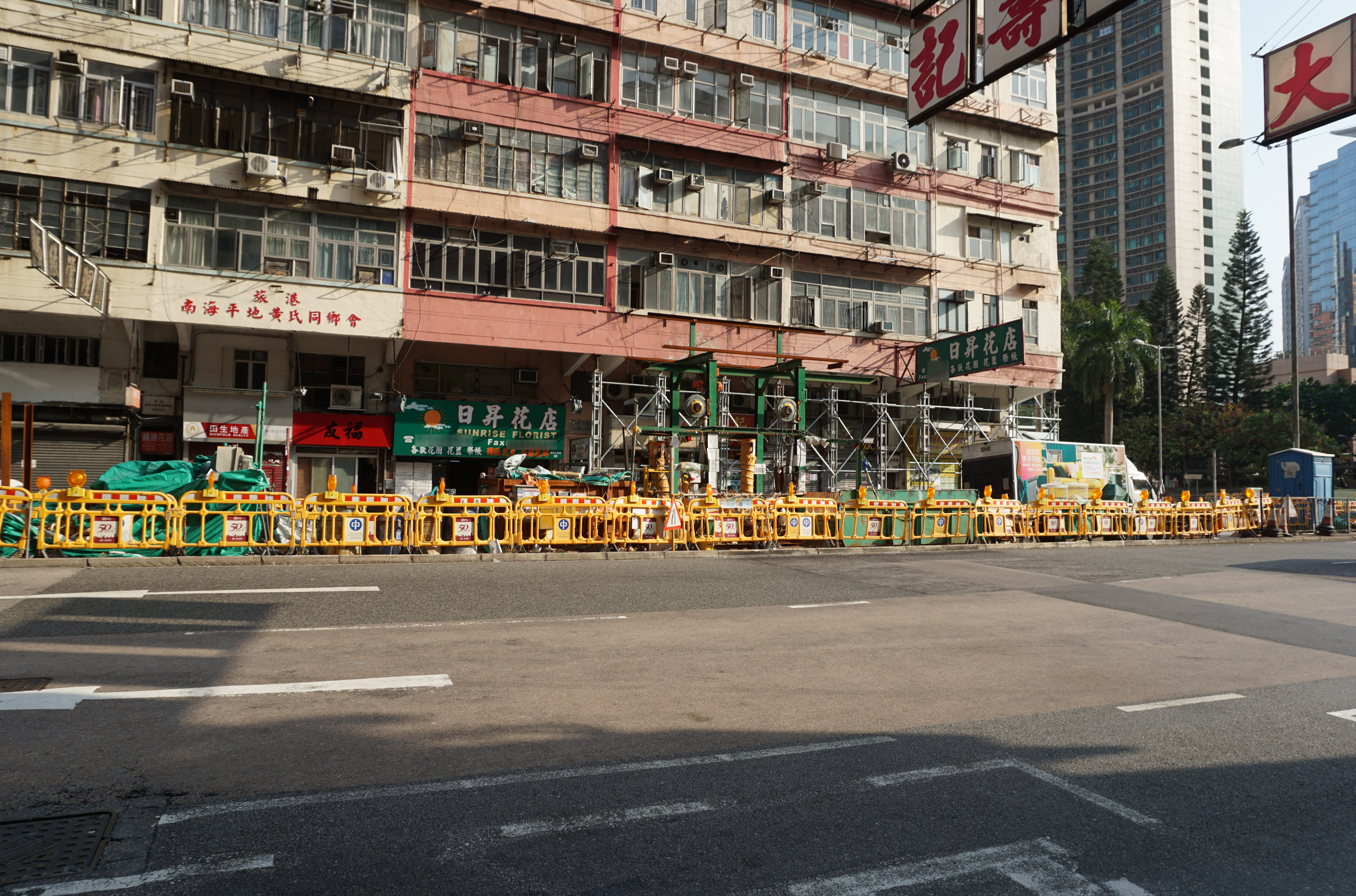 CLP workers drowned in Hung Hom, Hong Kong.